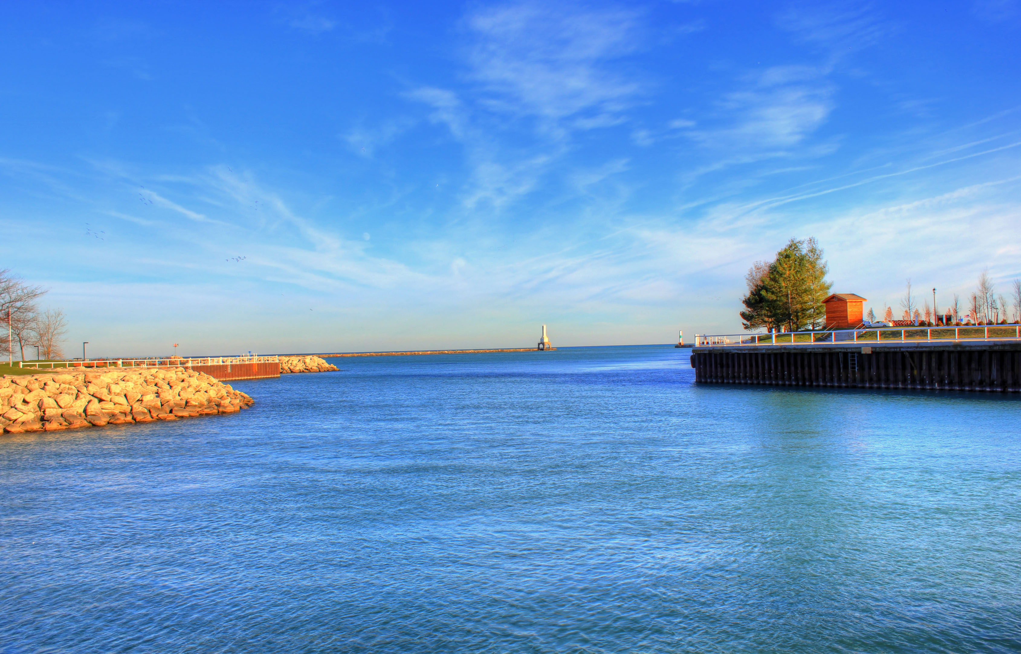 Port Washington is a town on the western shore of Lake Michigan in Wisconsin. The town is a popular destination for summer festivities and holds an annual boat Looking into Lake Michigan from the Harbor